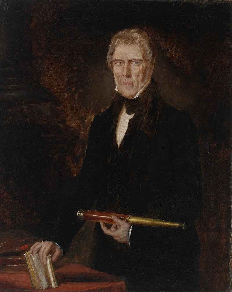 Portrait of Solomon Wiseman; oil painting laid down on masonite; 52.9 x 43.2 cm.